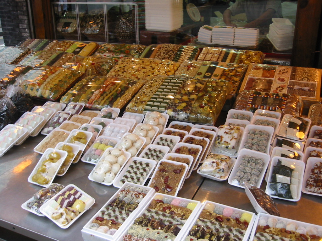 Various tteok diplayed at a shop.